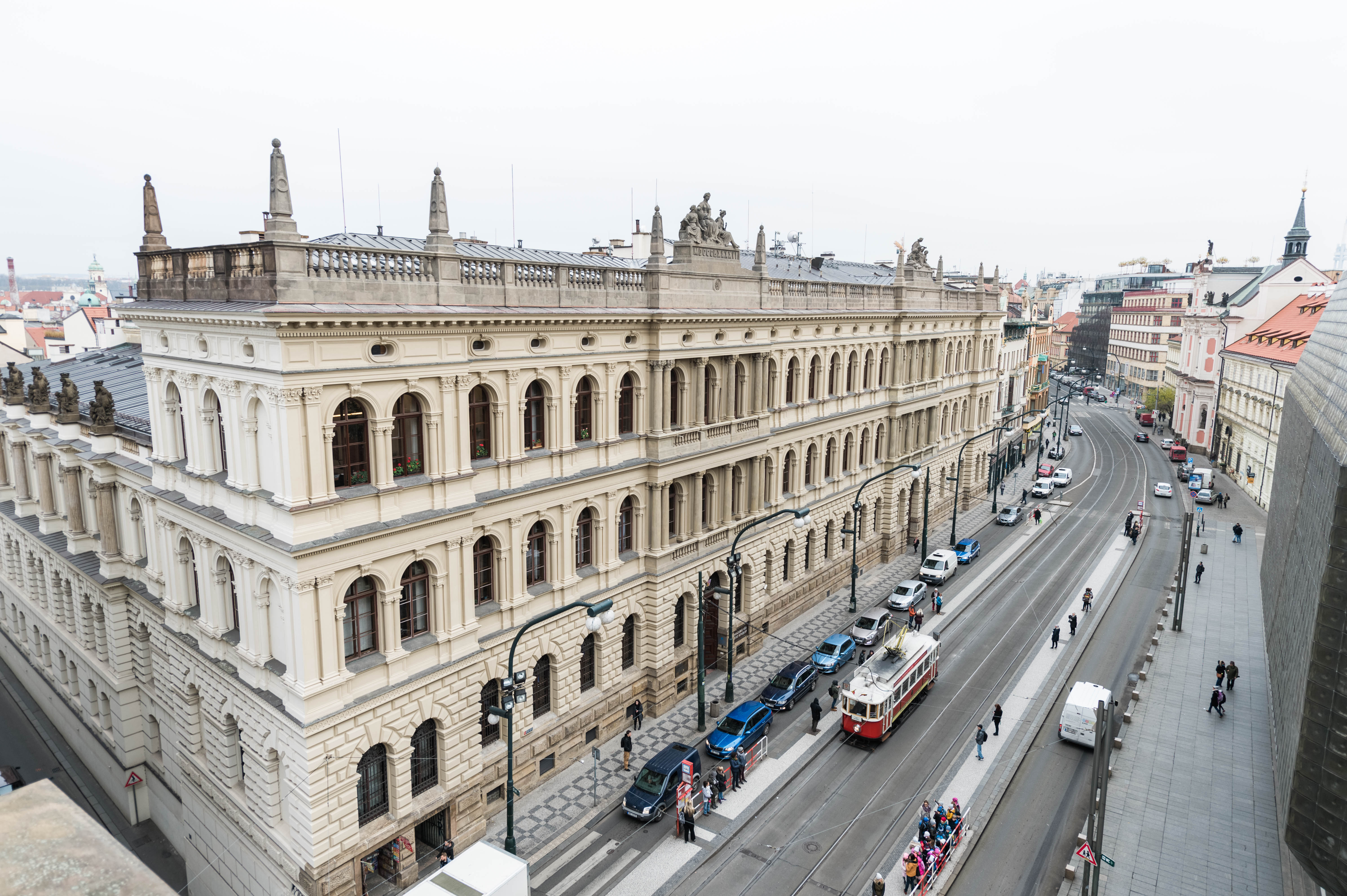 The building of the Czech Academy of Science in Národní třída, Prague, Czech Republic.